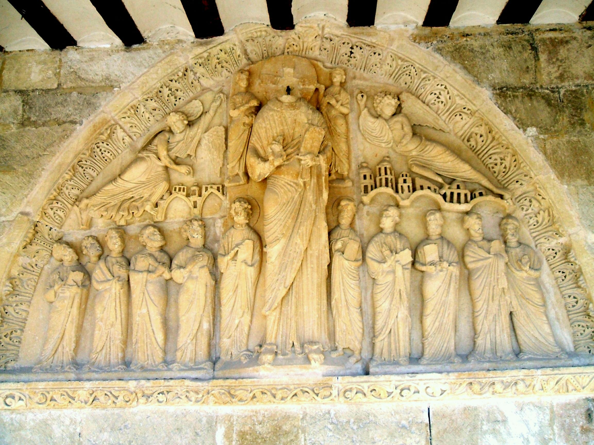 Tímpano románico de la Ascensión de Cristo empotrado en el atrio de la Basílica de San Prudencio de Armentia, en Vitoria-Gasteiz (País Vasco, España)